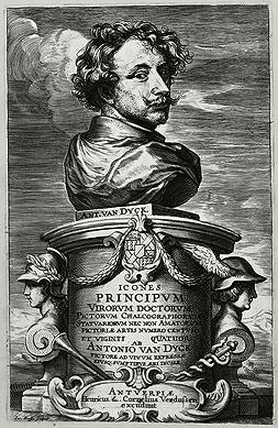 Self-portrait by Anthony van Dyck. Title page of the Iconography, c. 1629/1630, reworked c. 1645. Etching and engraving of the head by Anthony van Dyck and the remainder by Jacob Neefs.